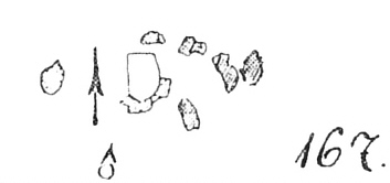 Outline of the dolmen Nesenitz, Saxony-Anhalt